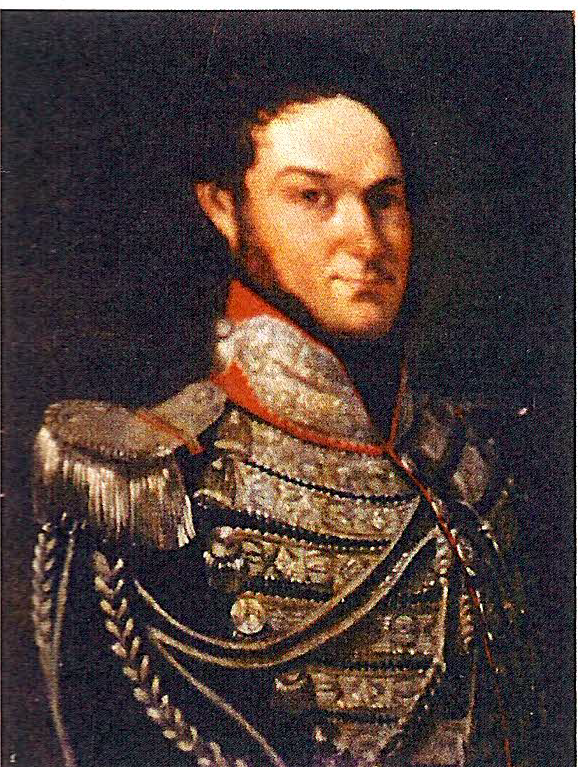 French officer and botanist of the XIX century